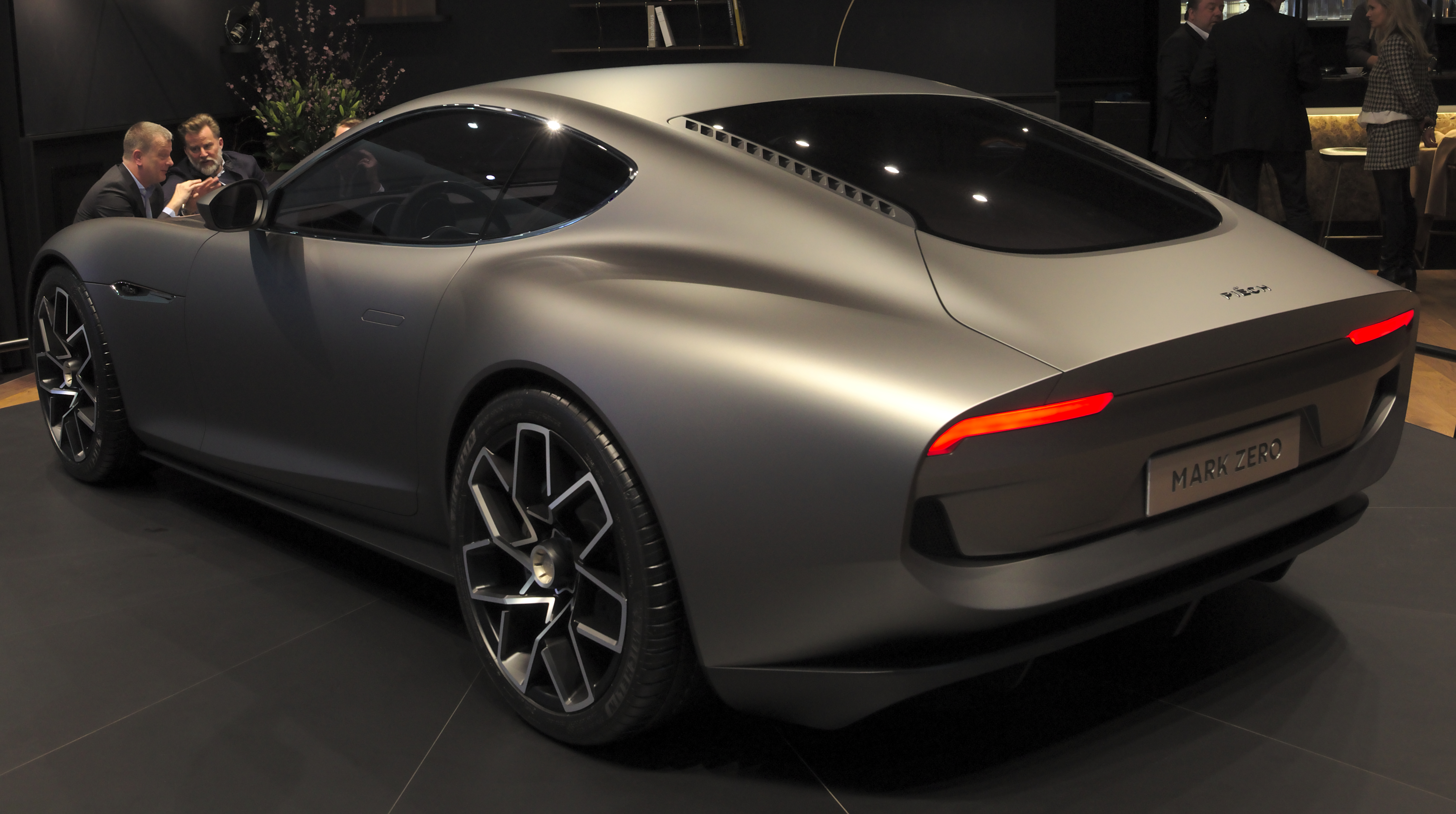 Piëch Mark Zero at Geneva Motor Show 2019